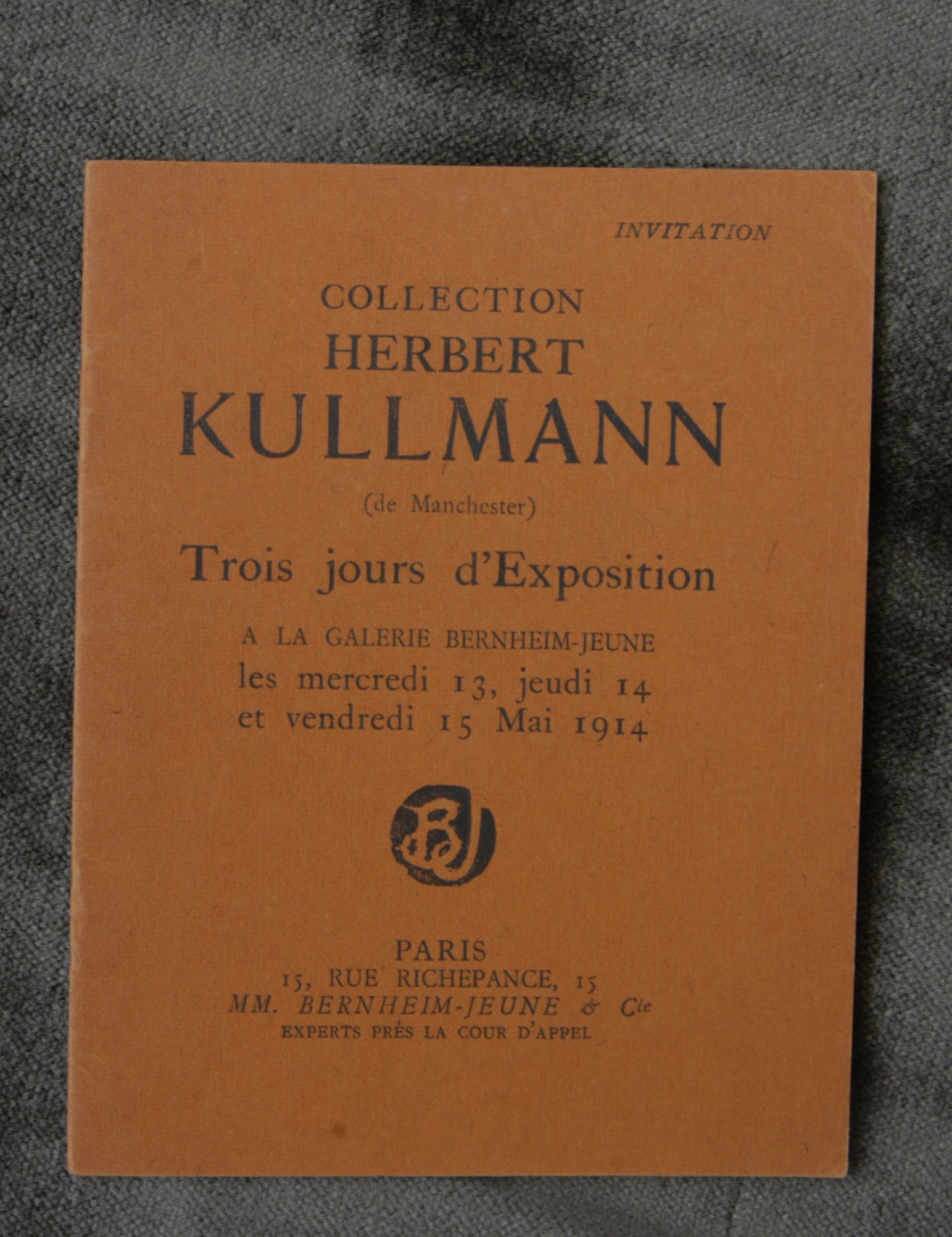 A Herbert Kullmann (of Manchester) sale catalogue, Galerie/messrs. Bernheim-Jeune, Paris, May 1914.